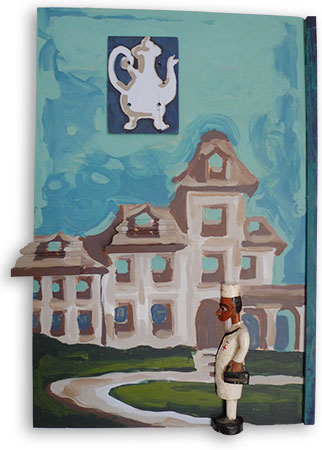 Photo of a painting assemblage.